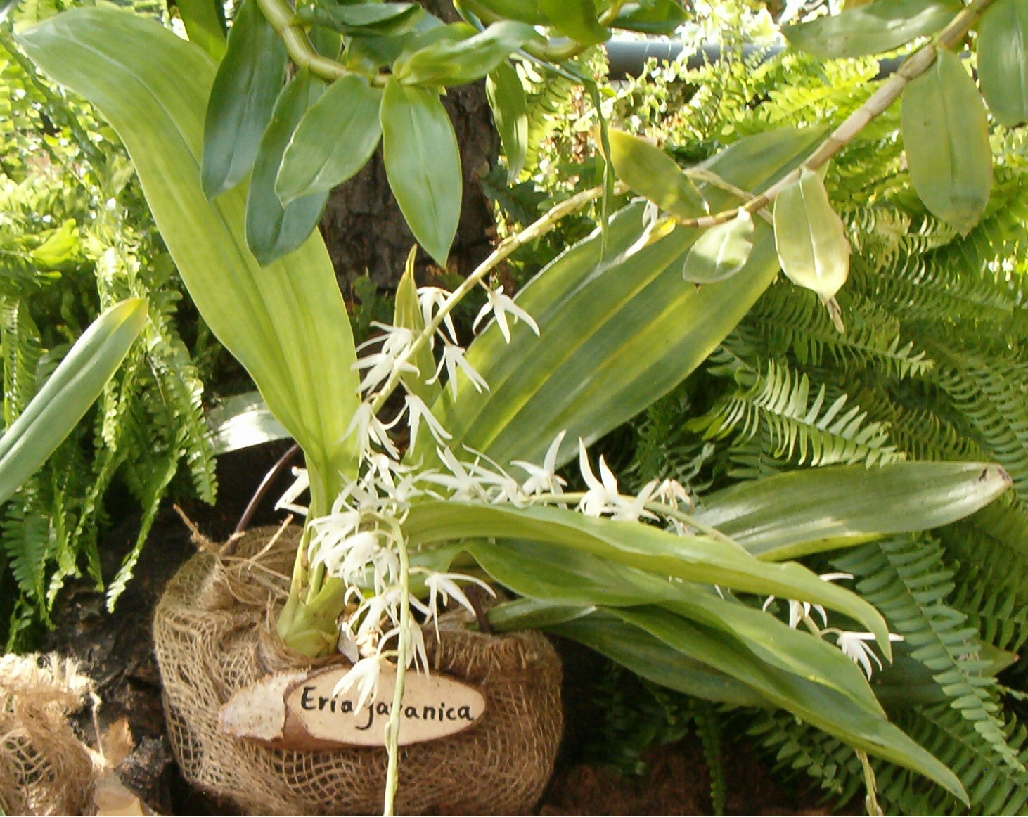 Eria javanica, Habitus and Flowers Location: Botanical Gardens Berlin - Orchid Exhibition